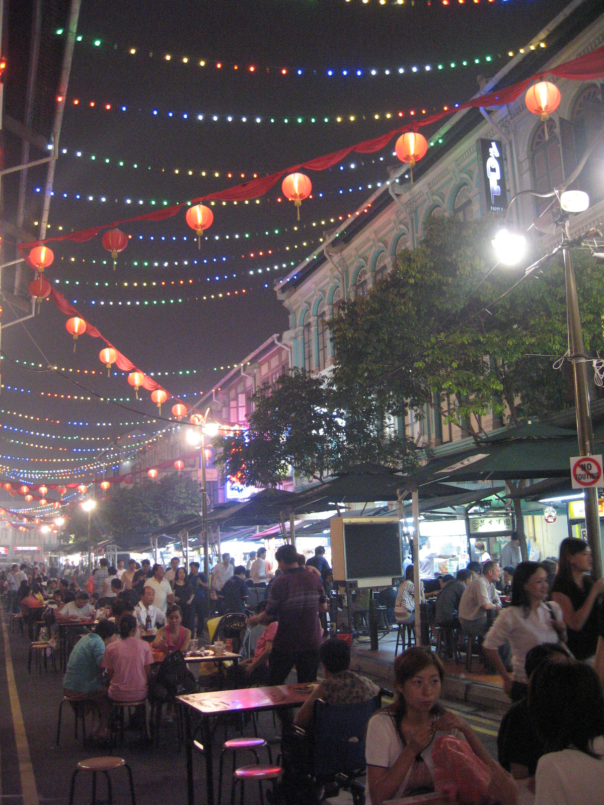 Smith Street.